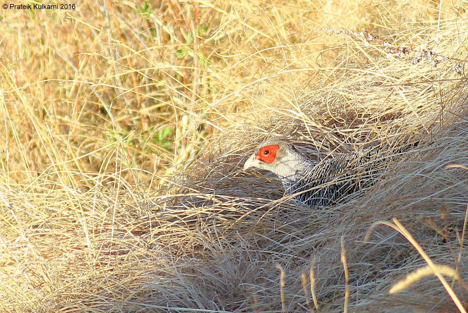 Probably one of those most sought after birds in Uttarakhand. We were very lucky to photograph it.